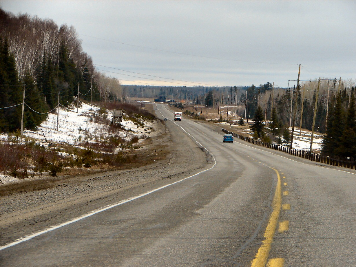 Highway 11 near Temiskaming Shores, Ontario, Canada